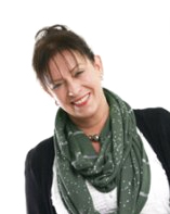 The English astrologer and writer Deborah Houlding.